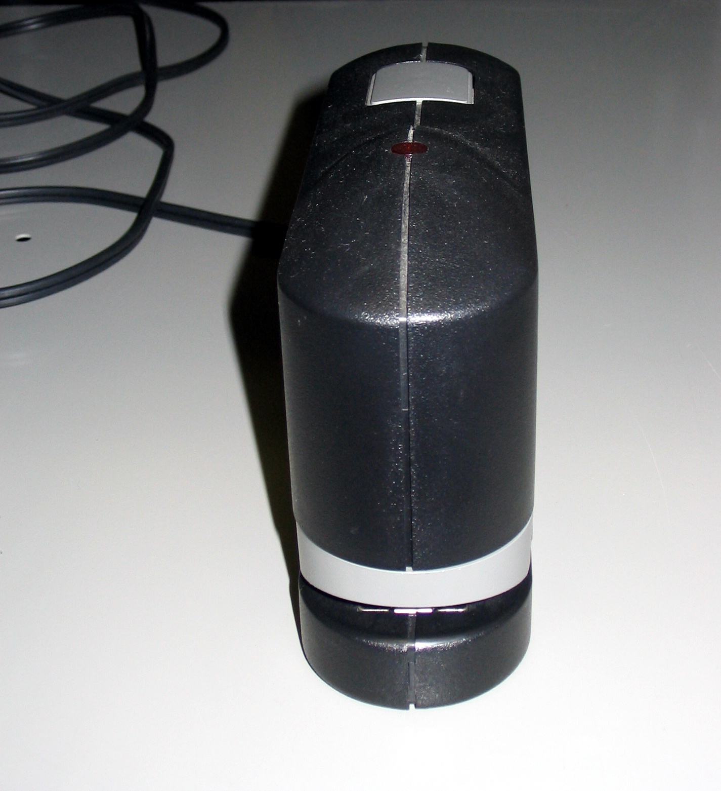 An electric stapler. Photographer: Jonathan Lamb.